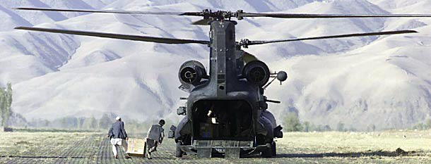 Feyzabad, Afghanistan — A U.S. MH-47D Chinook helicopter (Used by the 160th Special Operations Aviation Regiment) stands ready to receive medical supplies and whooping cough vaccine donated by the World Health Organization. U.S. officials approved a request by the organization to carry three doctors and enough vaccine to treat 2,000 people to Badhakshan Province, in northern Afghanistan, where an outbreak of whooping cough had claimed the lives of between 70 and 200 children. Two doctors were from the Afghan Ministry of Public Health and one was from the Aga Khan Development Foundation. Treating the children was complicated by the fact that travel takes three days by horse or mule to get over the mountains to the affected area. The only other way in is via helicopter. However, the altitude is such that most helicopters can’t fly that high because the air is too thin to provide lift. The affected region is 15,000 feet above sea level. Going over the mountains by pack animal was out of the question simply because the vaccine becomes inert after being un-refrigerated for more than 48 hours.